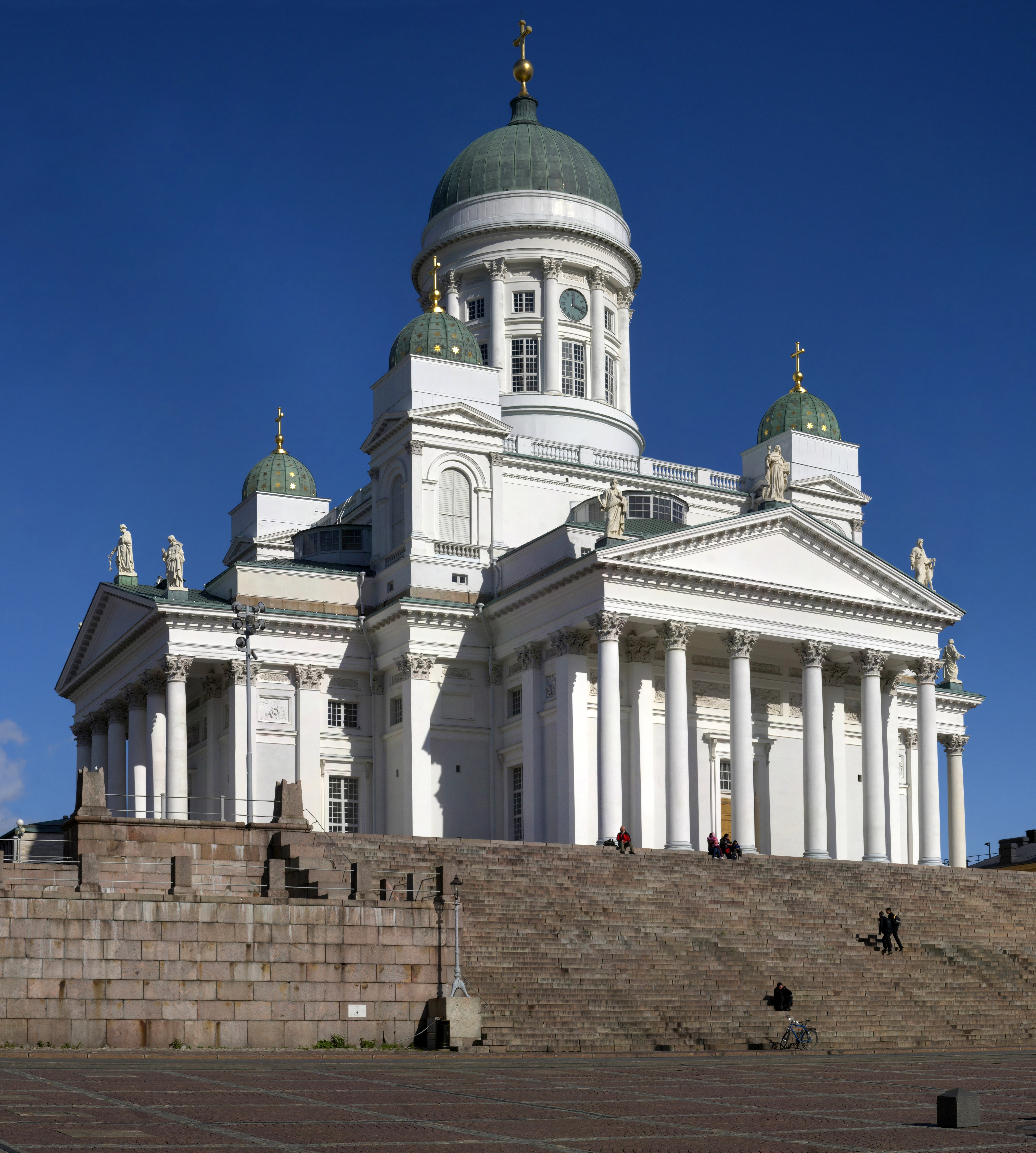 Helsinki Lutheran Cathedral in Helsinki, Finland, composed from 22 photographs.